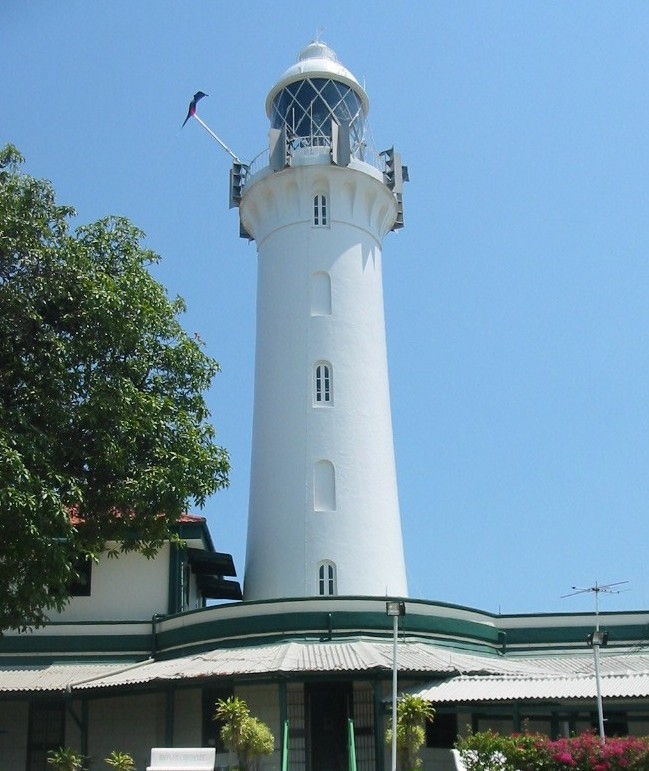 Raffles Lighthouse on Pulau Satumu, Singapore, photographed from the island's jetty.